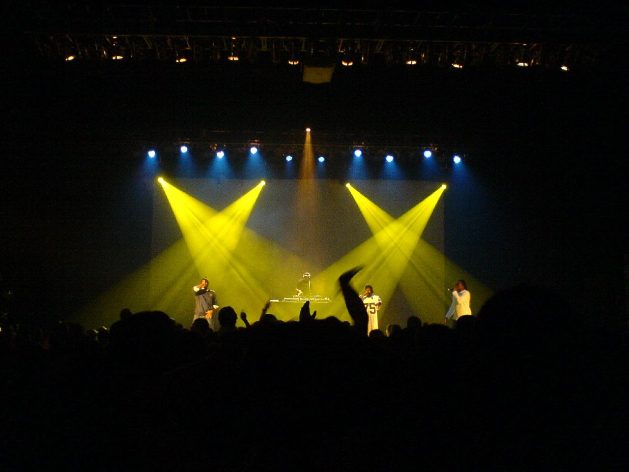 A Tribe Called Quest performing in Berkeley, California.